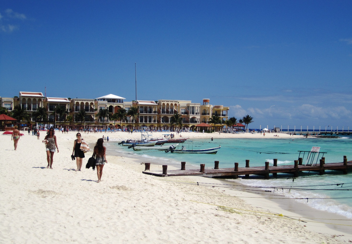 Beach of Playa Del Carmen